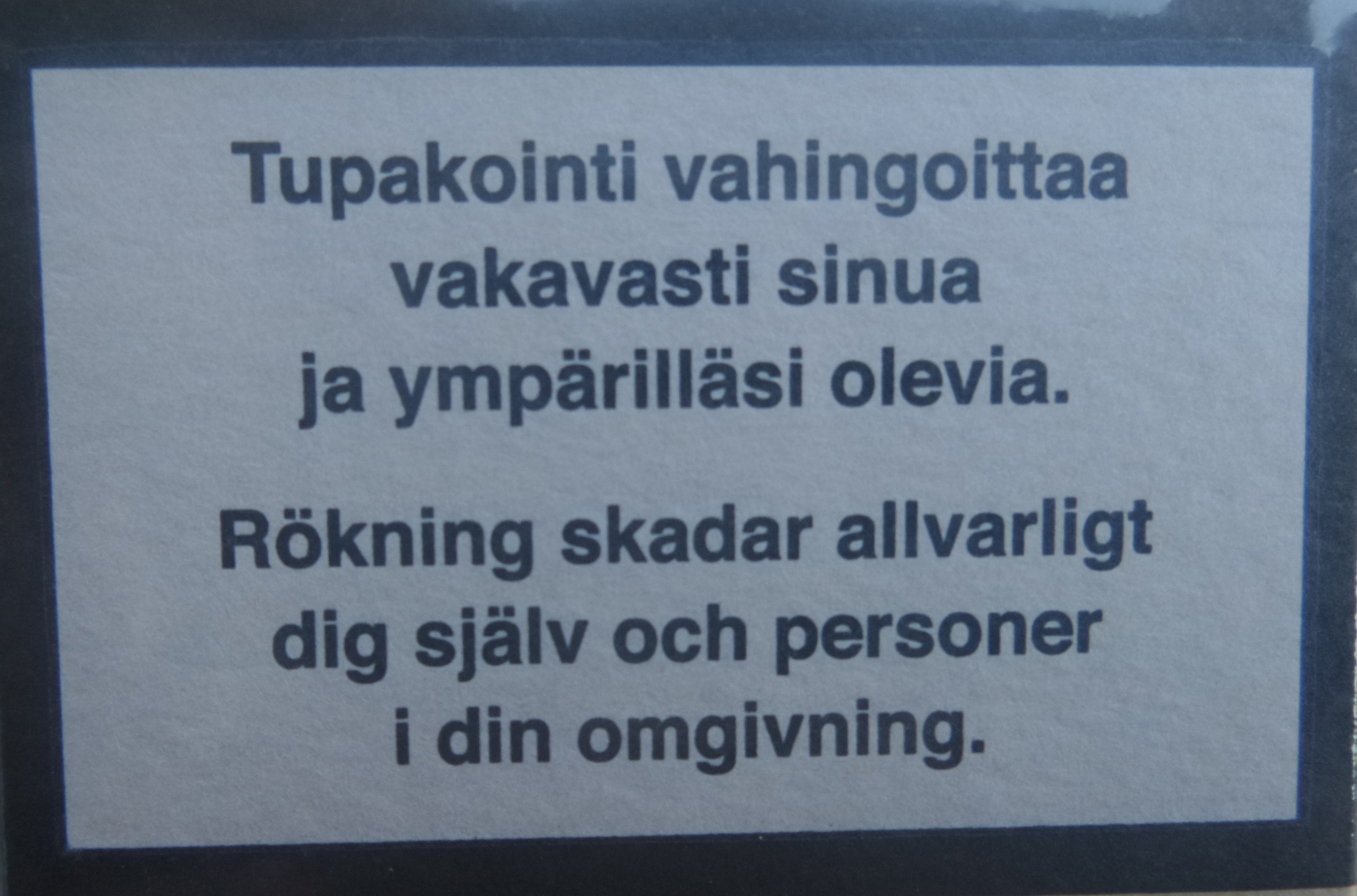 Finnish disclaimer in cigarette pack